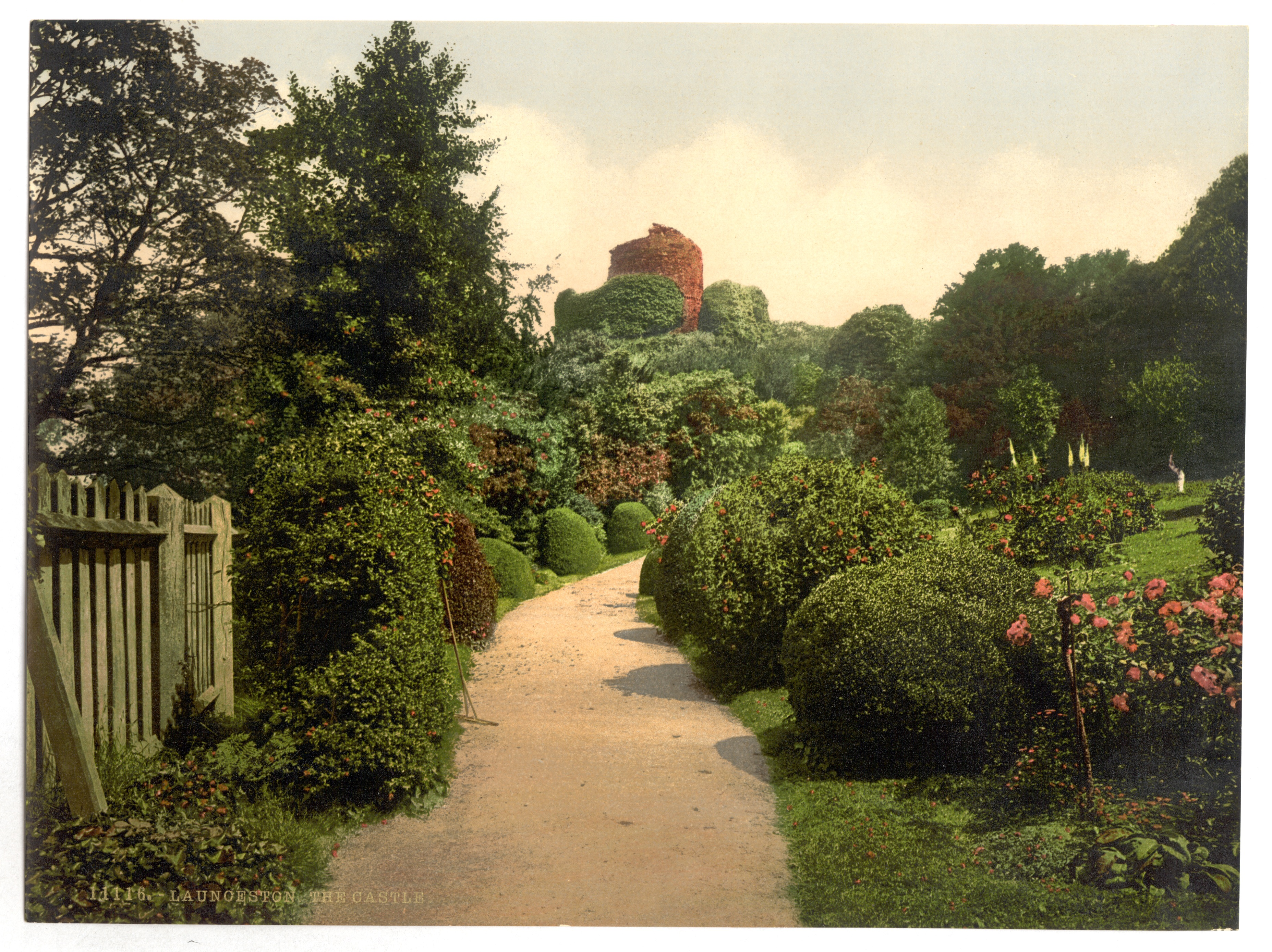 Forms part of: Views of the British Isles, in the Photochrom print collection.; Print no. "11116".; Title from the Detroit Publishing Co., Catalogue J-foreign section, Detroit, Mich. : Detroit Publishing Company, 1905.; More information about the Photochrom Print Collection is available at